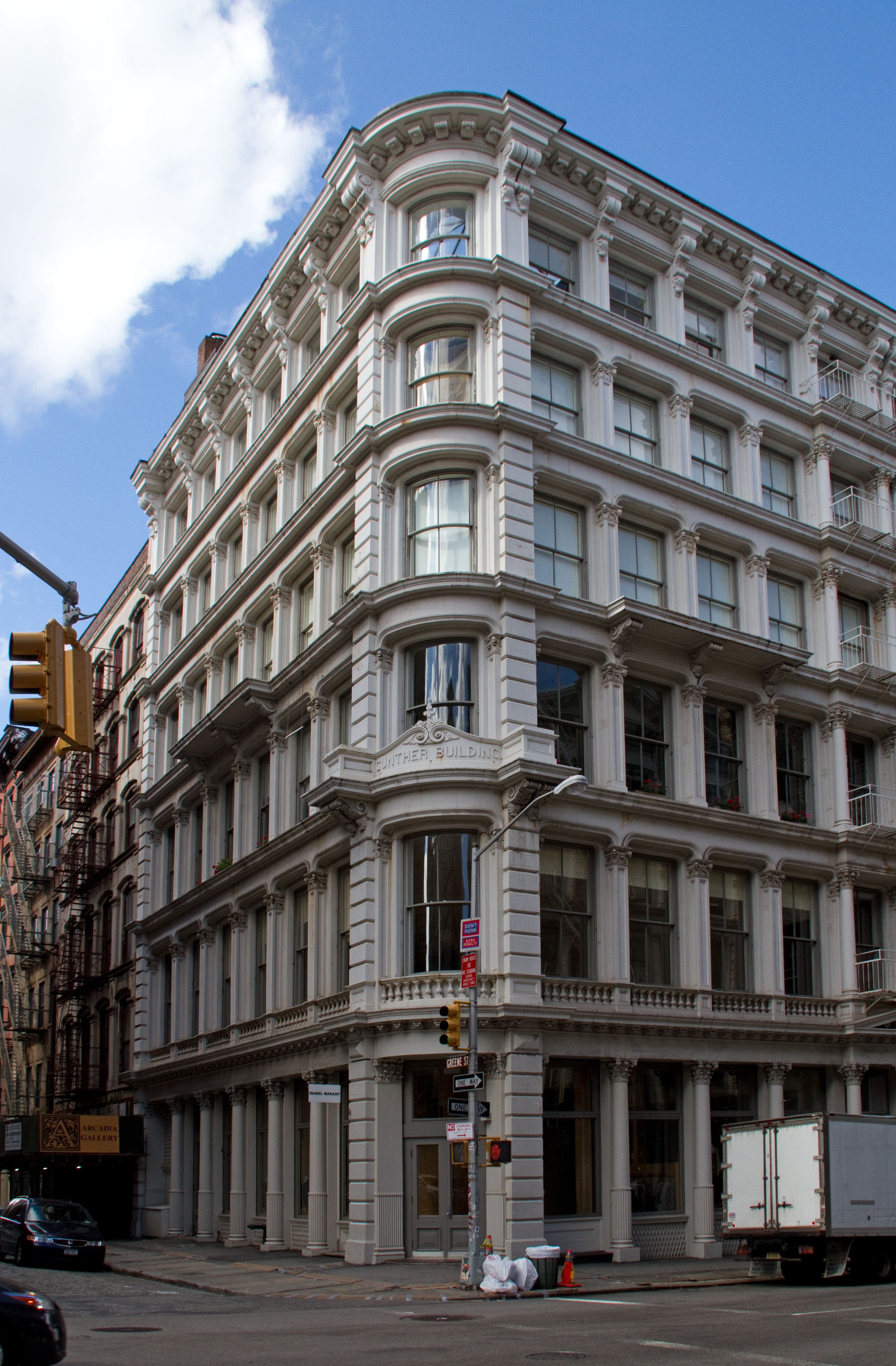 The Gunther Building on Broome Street at Green Street, Manhattan, New York